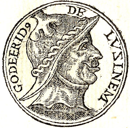 Geoffroy-Magni Dentis was a legendary person in the Middle Ages of France. He was a son of Mellusine in the legend.